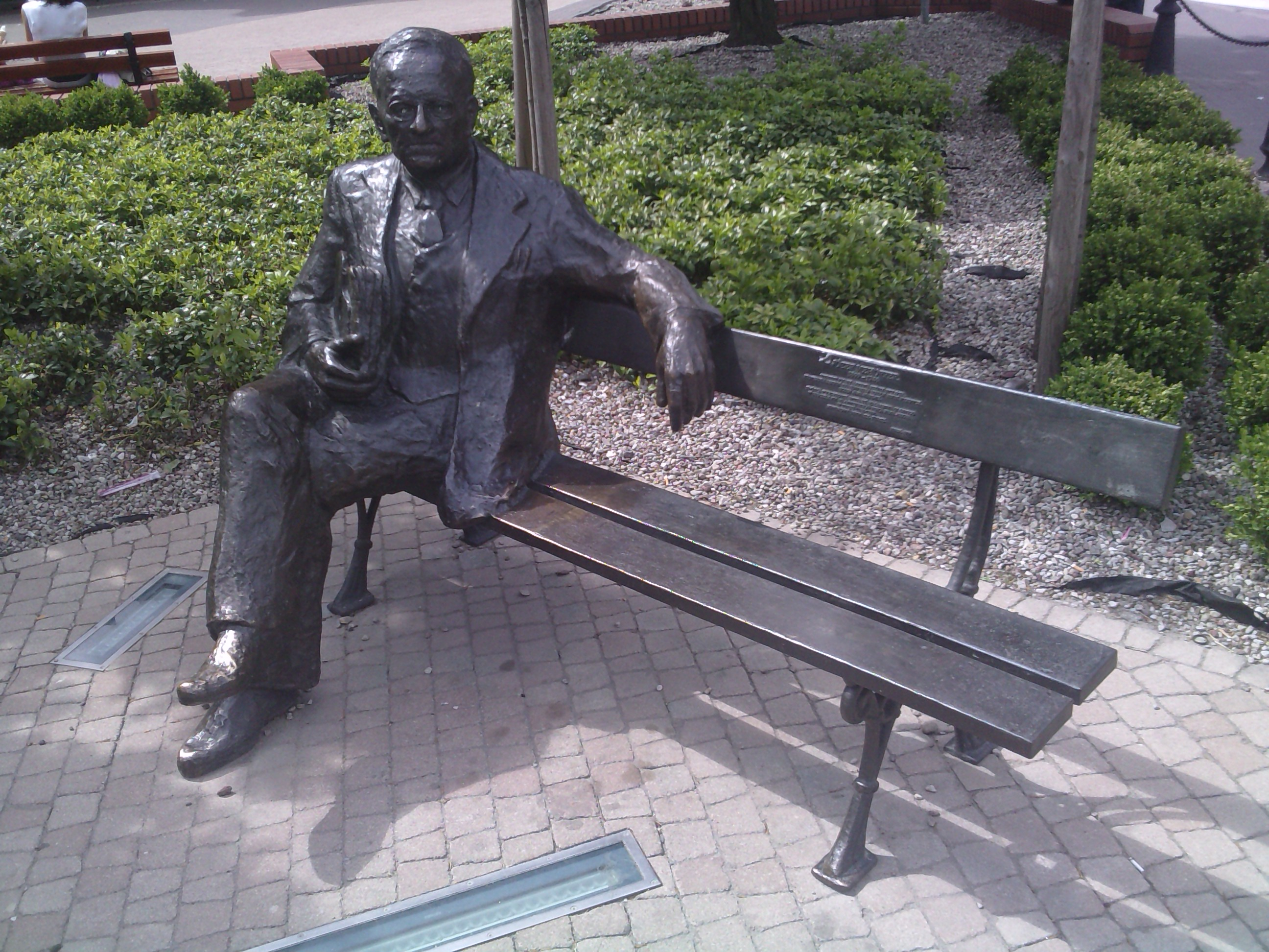 Józef Mehoffer - sculpture from Turek (Poland)